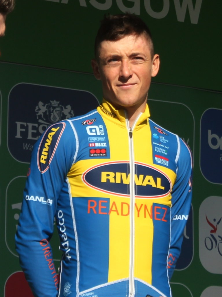 Swedish road racing champion Lucas Eriksson in Glasgow where he is riding for the Danish Riwal-Readynez team in the 2019 Tour of Britatin.